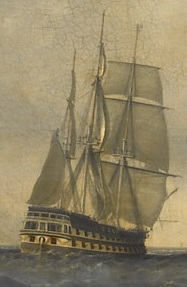 The painting showing the steam auxiliary 'Blackwall frigate' East Indiaman 'Vernon', 996 tons, broadside in the centre on her maiden voyage. She passing HM ships 'Edinburgh' and 'Blenheim' as they beat down Channel off Bembridge, Isle of Wight, on 21 September 1839.